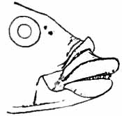 Line drawing of a side view of the head of a wrasse (Labrus viridis)